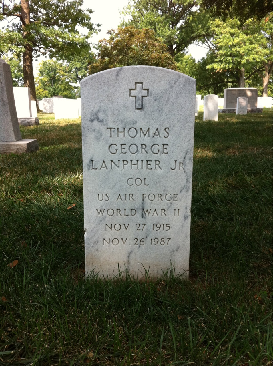 Grave of Thomas George Lanphier Jr. at Arlington National Cemetery